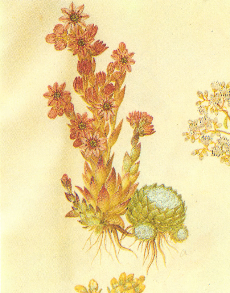 Sempervivum arachnoideum, gouache on vellum, in: Gottorfer Codex